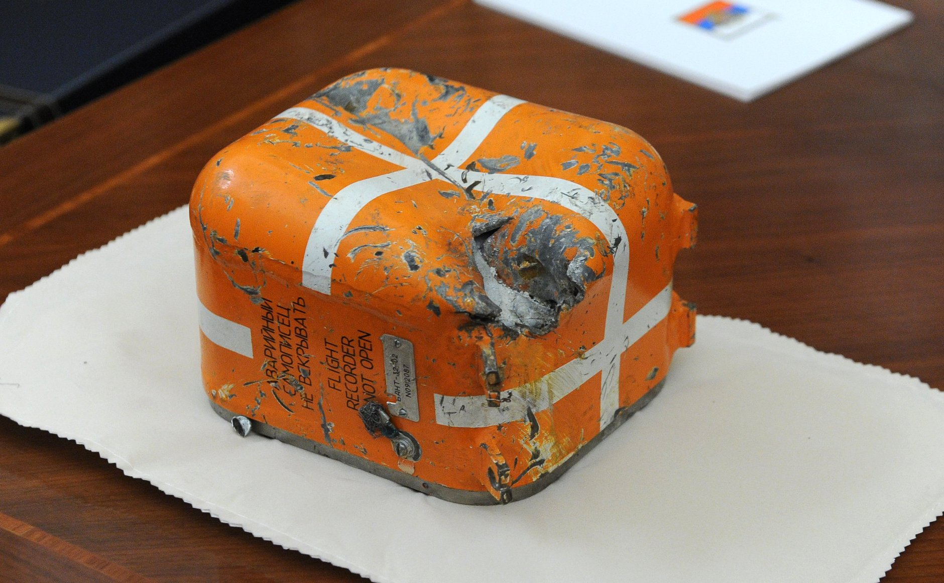 Flight data recorder from the Russian fighter jet shot down in Syria